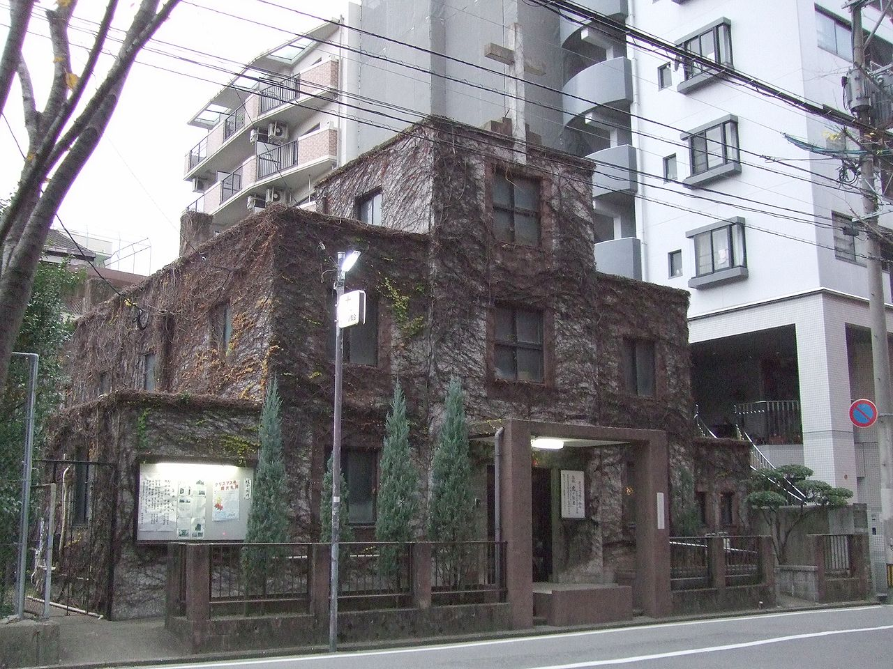 Fukuoka Kego Church, Kego, Chuo Ward, Fukuoka City, Fukuoka, Japan